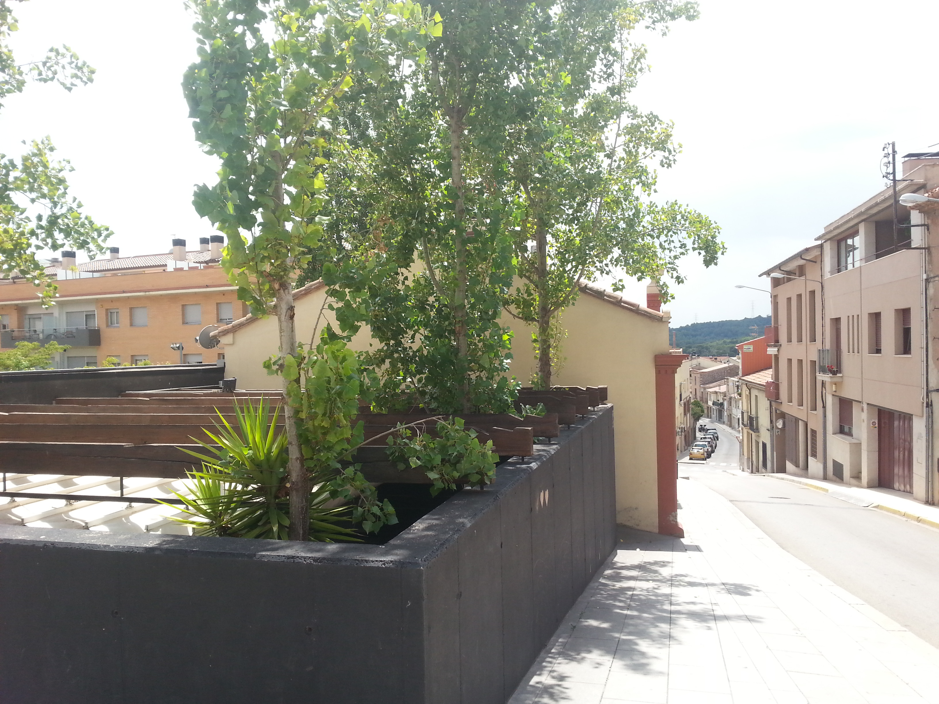 Cal Calisso, a historical building @ Castellar del Vallès, Catalunya.